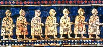 Sumerian warriors. Fragment of the Standard of Ur